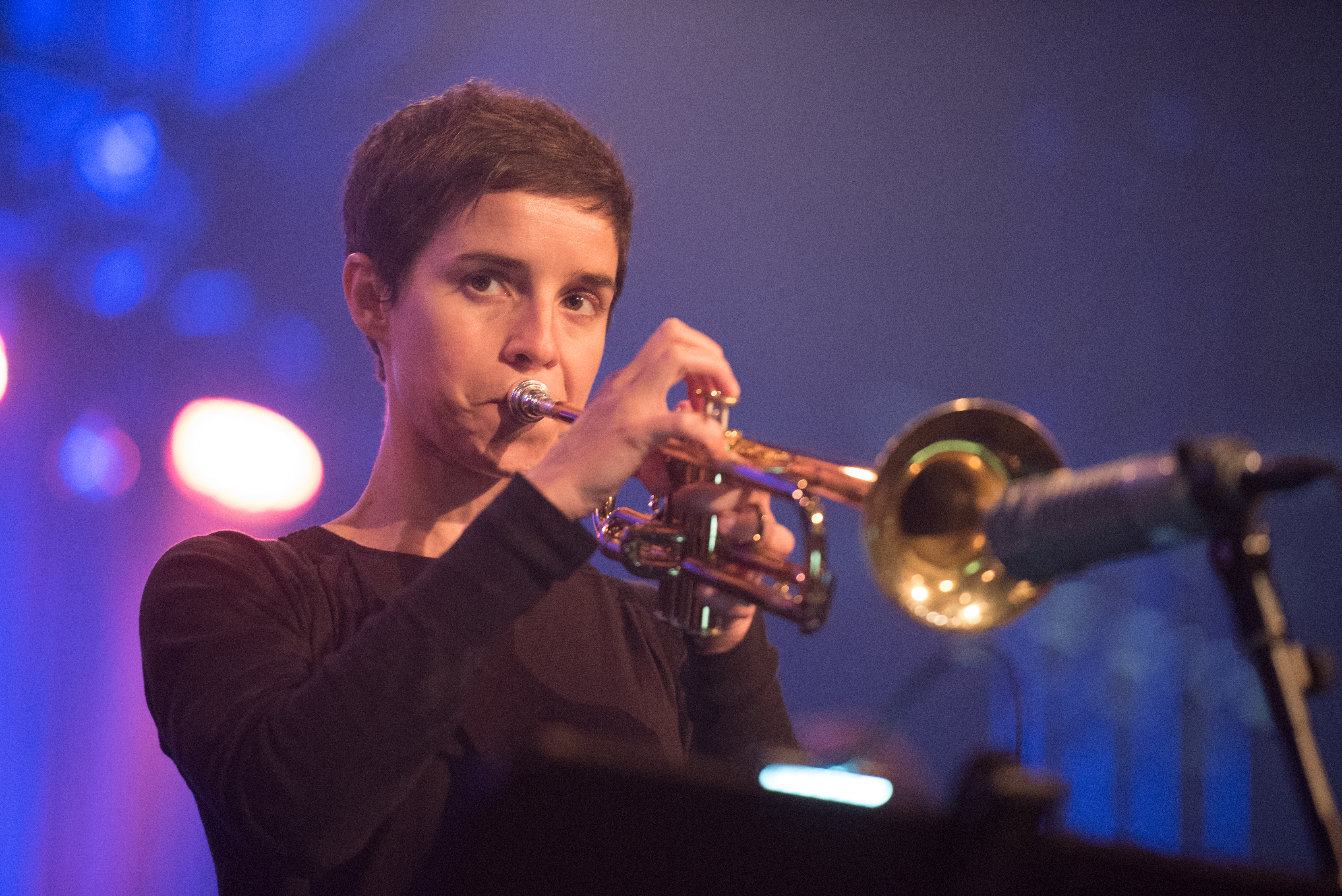 Portuguese trumpeter Susana Santos Silva at the Moers Festival 2016